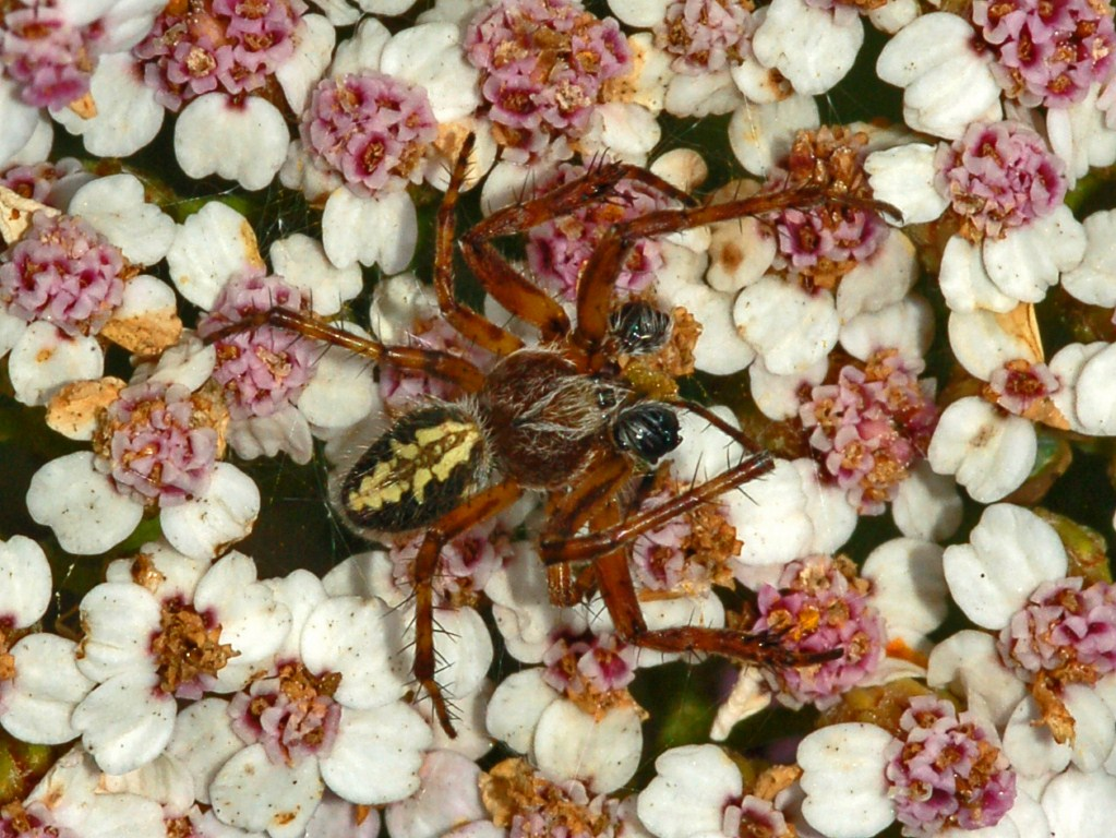 Aculepeira ceropegia - male in Val di Rhemes, Aosta, Italy